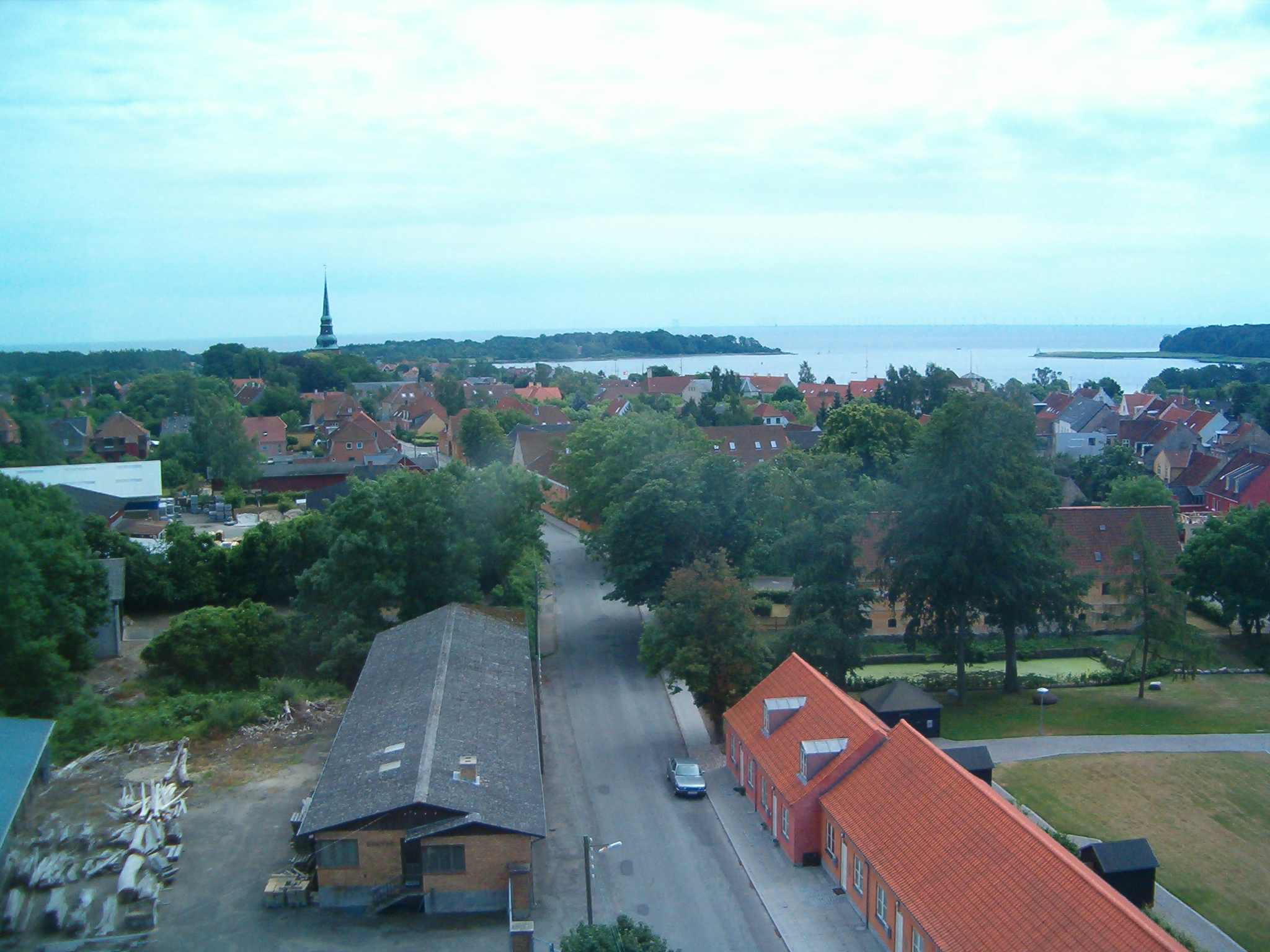 Udsigt mod syd over Nysted fra vandtårnet A view to the south from the water tower Made by: Erik Damskier 21:32, 13 July 2006 (UTC)